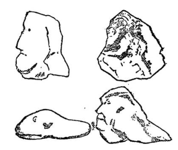 Sketch of Francis W. Doughty's clay stones that he found. He believed that they depicted faces or heads.